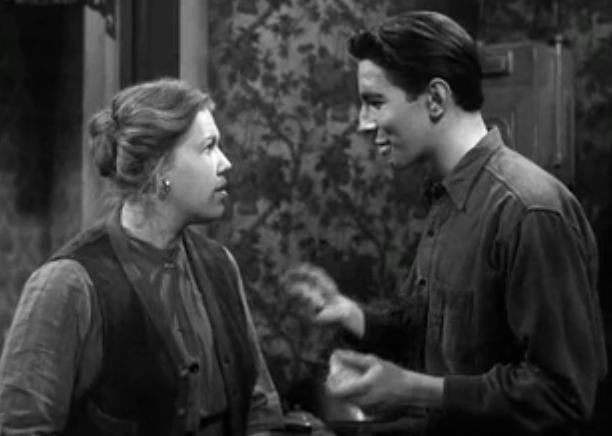 Kathleen Freeman & Leonard Nimoy in Kid Monk Baroni - cropped screenshot